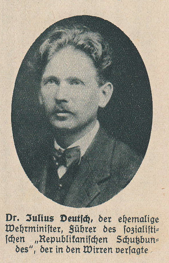 Photo of Julius Deutsch from early 1920's, republished in the German Catholic magazine StadtGottes